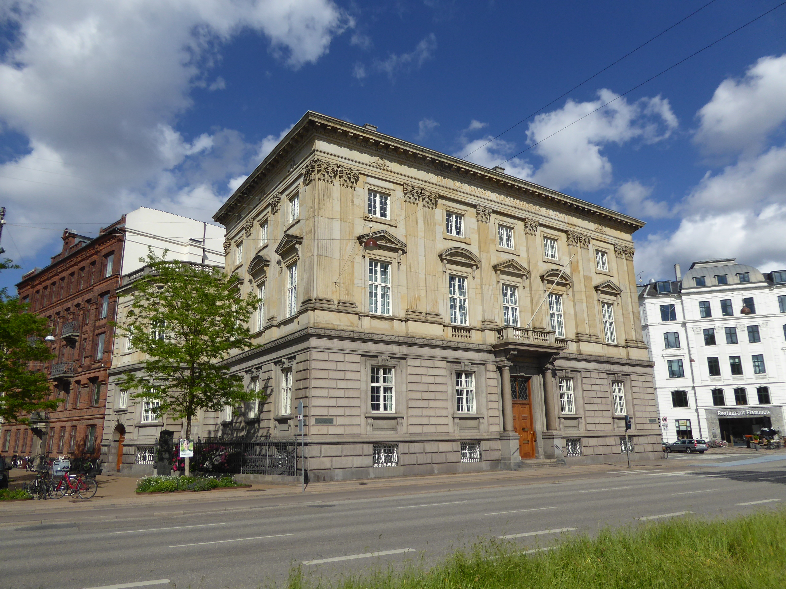 Mansion at H.C. Andersens Boulevard in Copenhagen belonging to Carlsbergfondet og Videnskabernes Selskab.